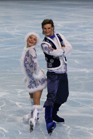 Ekaterina RUBLEVA and Ivan SHEFER (RUS) at the 2009 Trophee Eric Bompard.